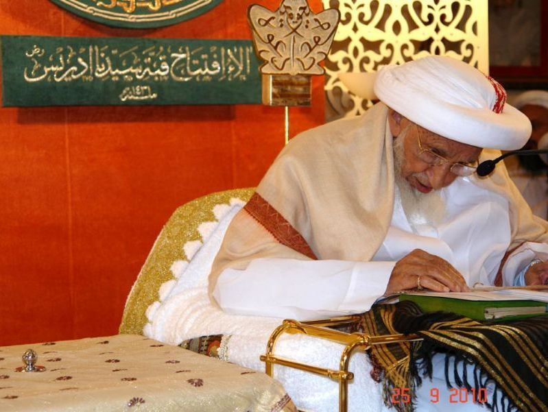 Photo of Dawoodi Bohra 52 nd Dai Sayyedna Mohammad Burhanuddin